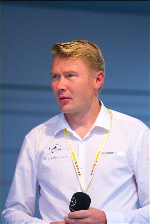 Mika Hakkinen at the 2009 DTM Round at Norisring